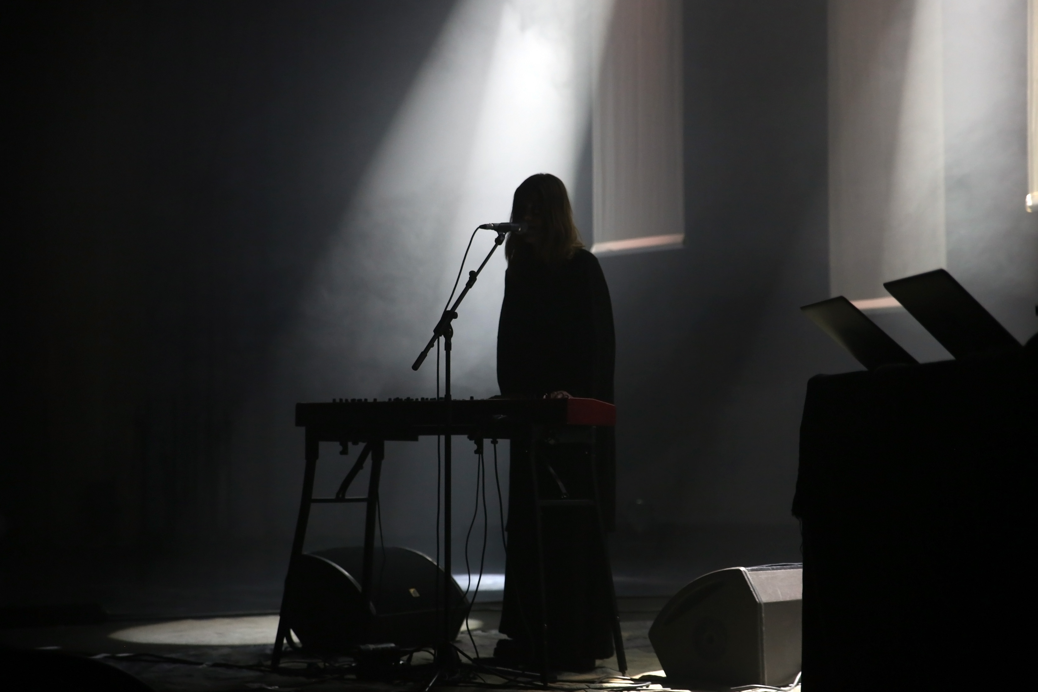 Dillon - concert at Odeon during Waves Vienna Music Festival & Conference 2012 in Vienna, Austria.